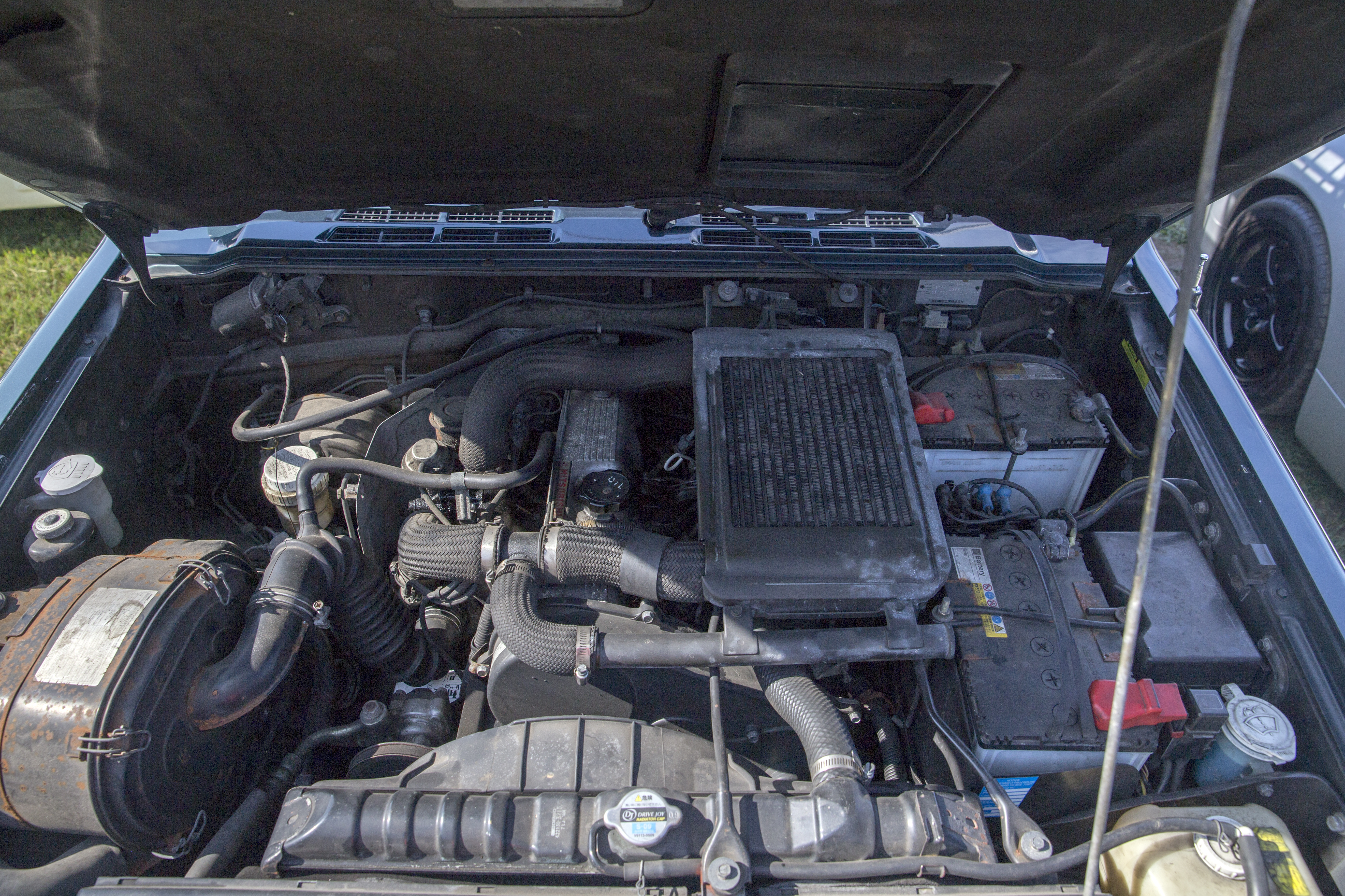 The 2.5-liter turbodiesel 4D56 four in a JDM 1991 Mitsubishi Pajero 2.5 TD Wagon (LWB). At the 2019 Bridgehampton Cars & Coffee.